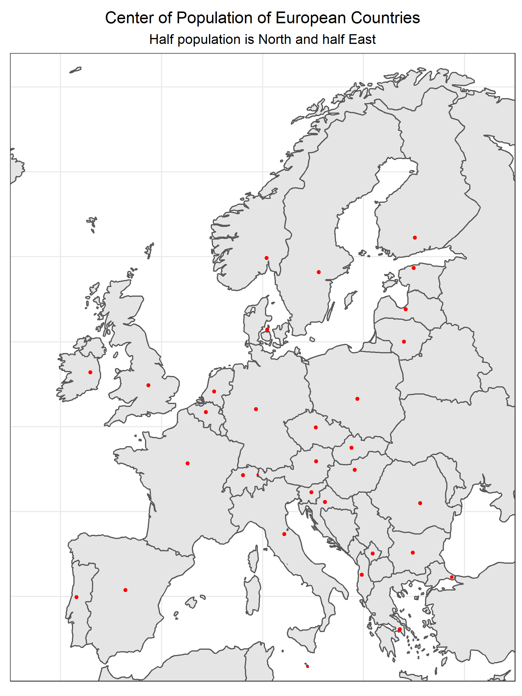 The square kilometer in European countries where half the population lives south of that point. And half live east of it. There is a wikipedia page on the concept of center of population The data to make this comes from Eurostat My code to recreate it is at